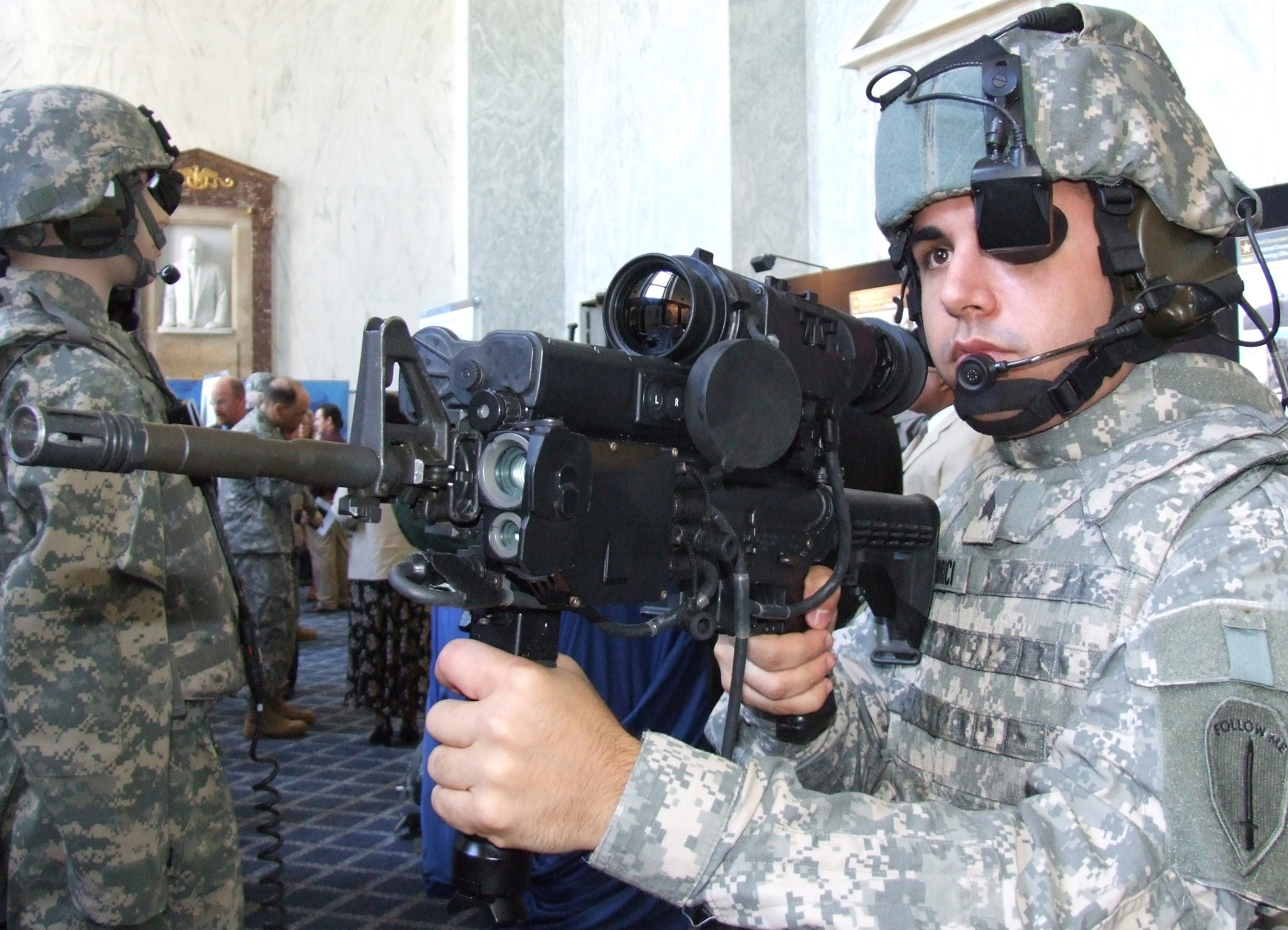 Sergeant Philip Morici models the improved Land Warrior individual soldier combat system at a military equipment exhibit held in the Rayburn House Office Building in Washington, D.C., June 6.